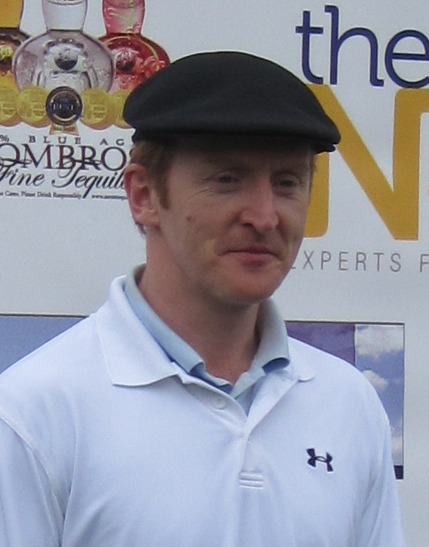 Curran at the 8th Annual Hack n' Smack Celebrity Golf Tournament in 2011